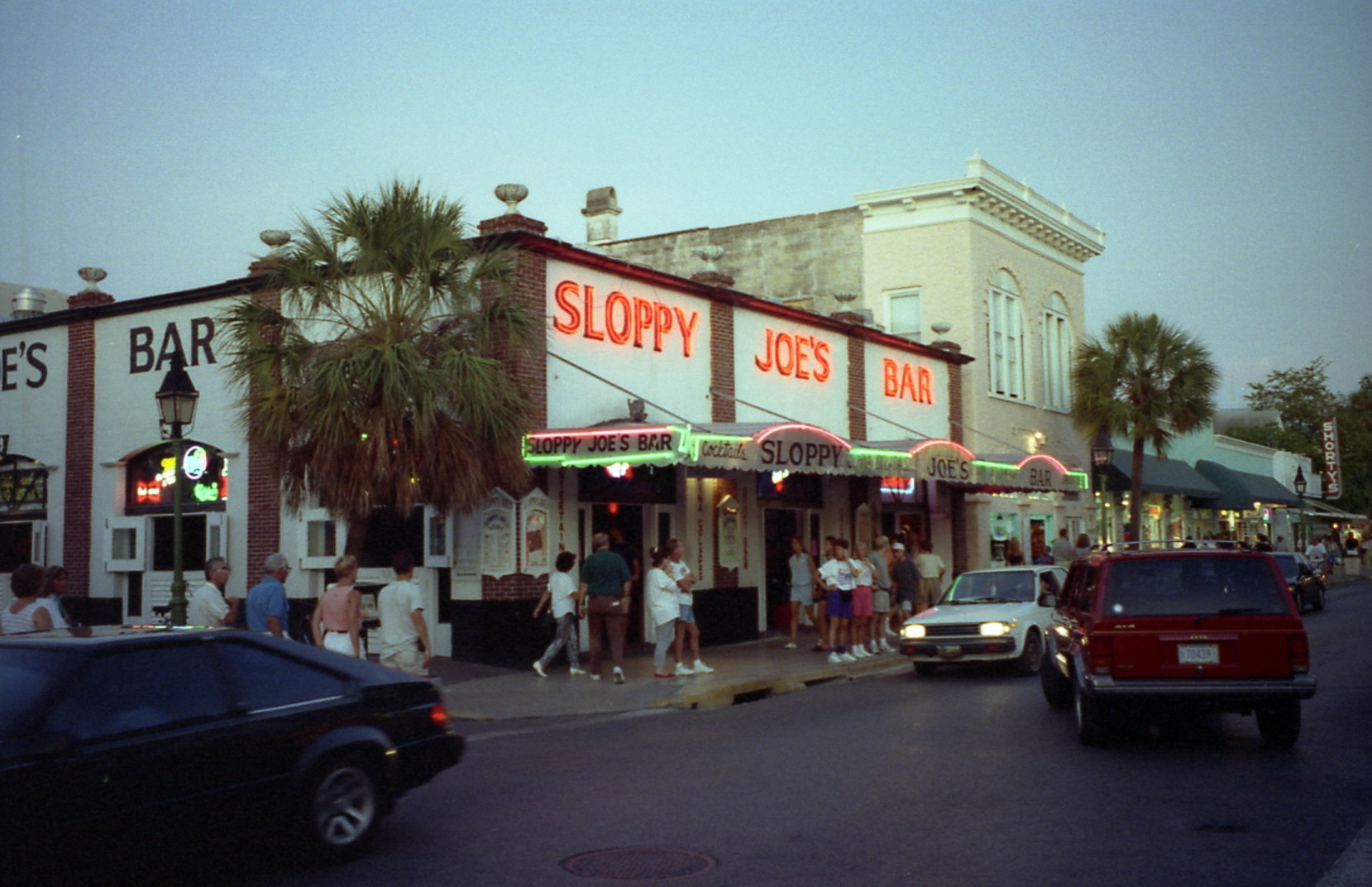 Sloppy Joe's Bar in Key West, Florida